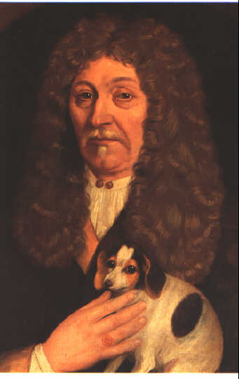 Henry Bishop, the English Postmaster General, 1660-1663